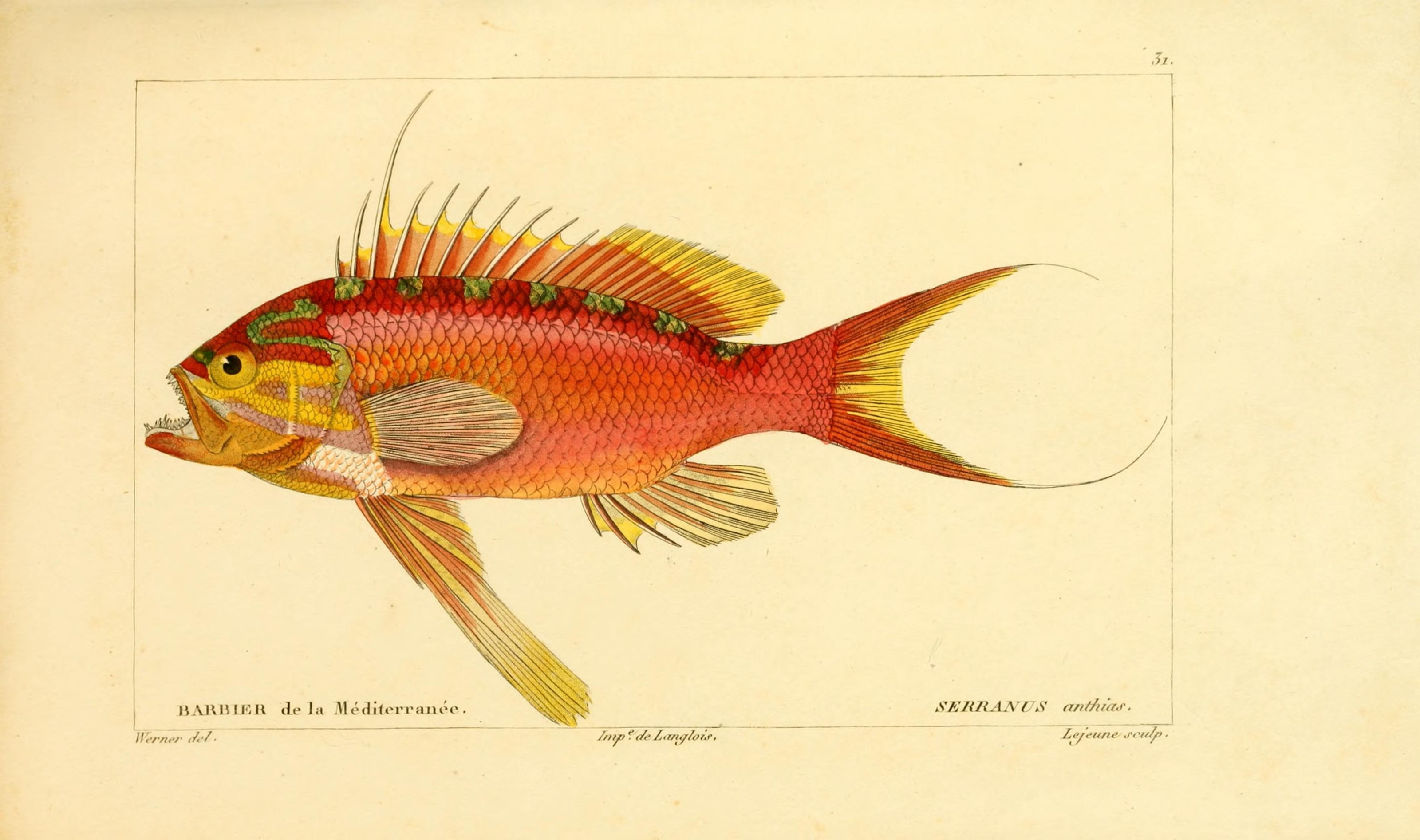 Anthias anthias syn. Serranus anthias Histoire naturelle des poissons /. Paris :Chez F. G. Levrault,1828-1849..